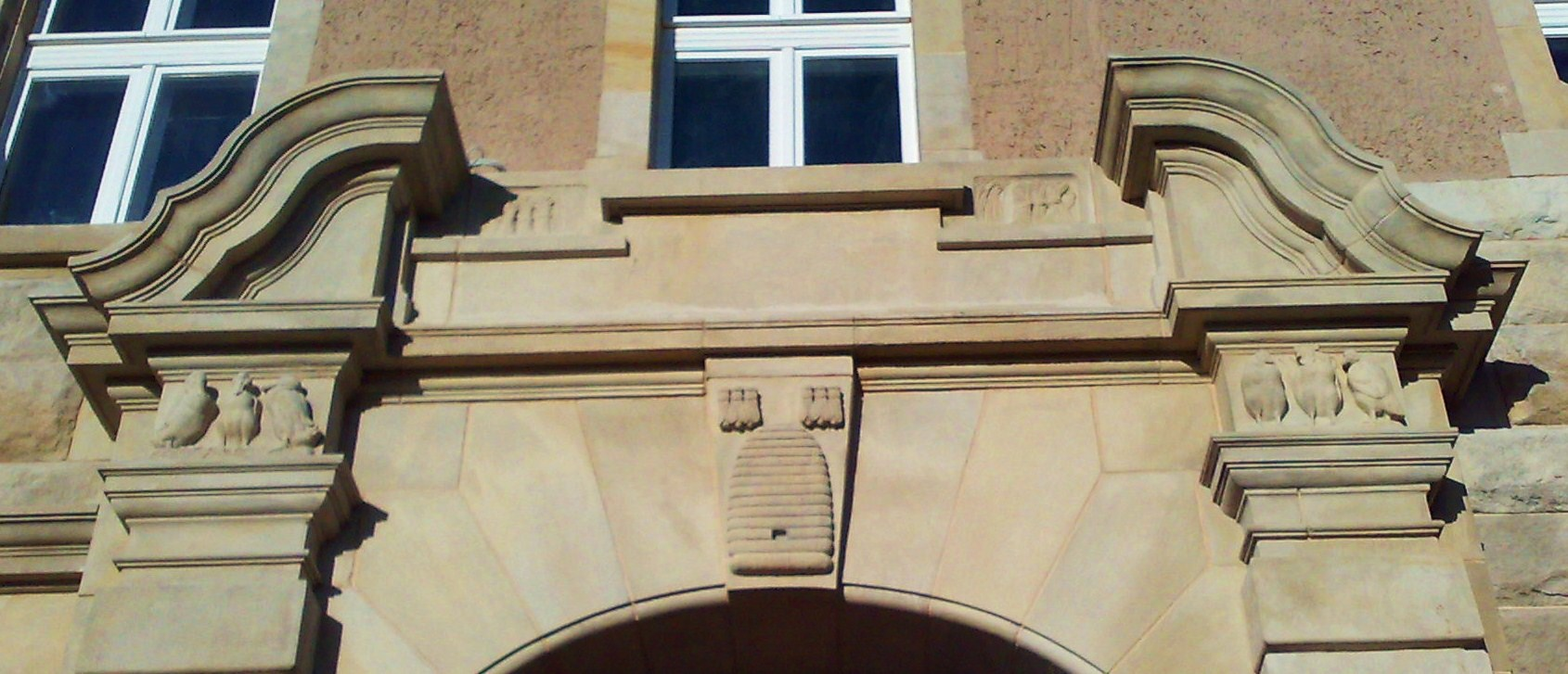 Collegium Iuridicum, Poznan, detail - ex Reiffeisen.